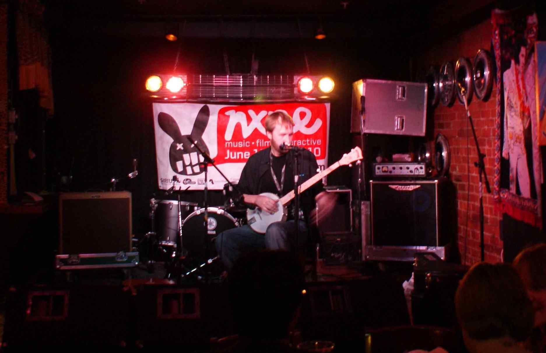 Uncle Sinner playing his set at NXNE in 2010